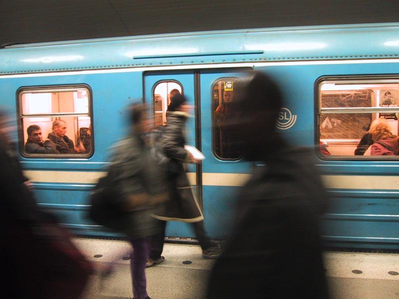 Tunnelbana in Stockholm